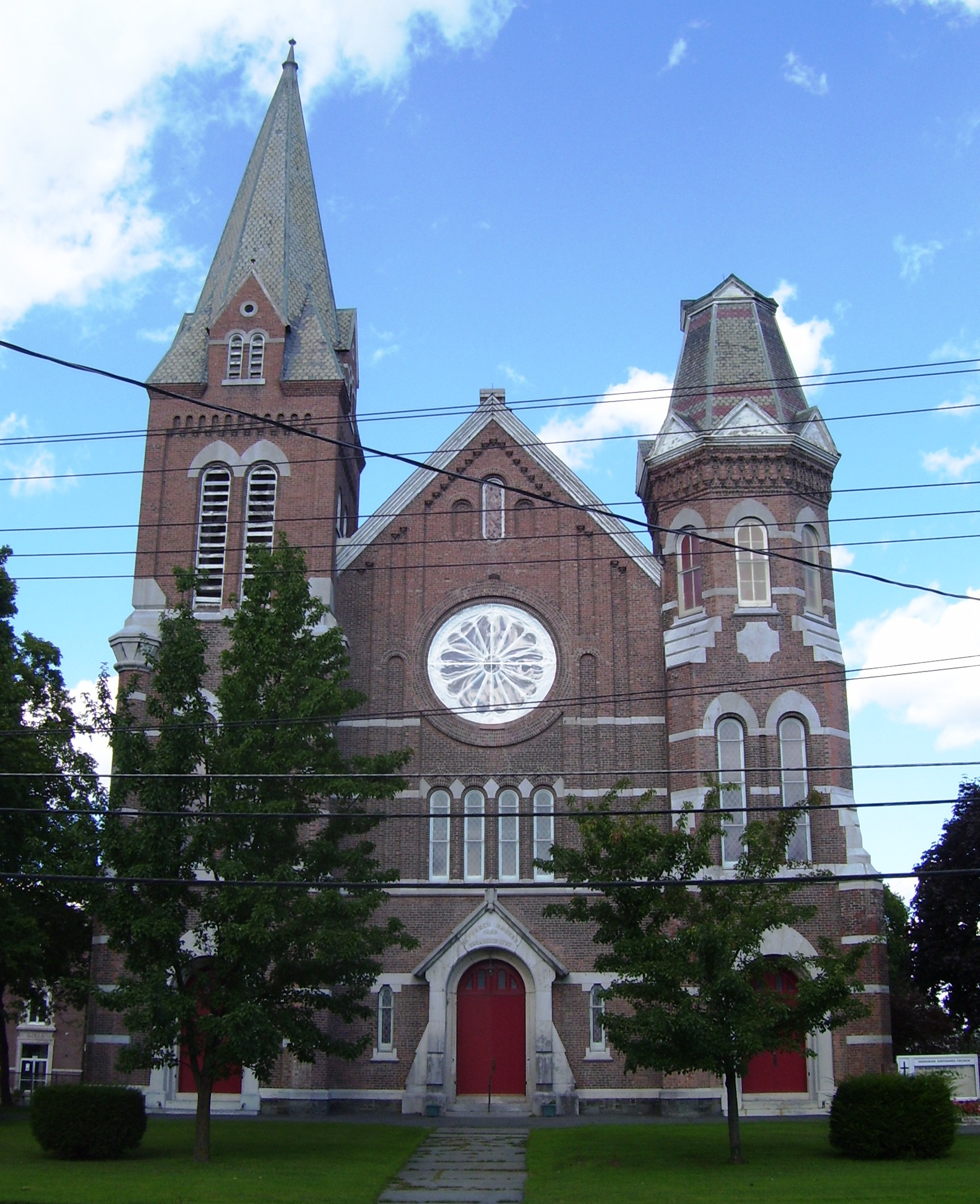 Deerpark Reformed Church at 30 East Main Street in Port Jervis, New York was originally organized by Dutch settlers in 1737, the oldest congregation in the area. The current building was built in 1868. (Source: Historical marker)